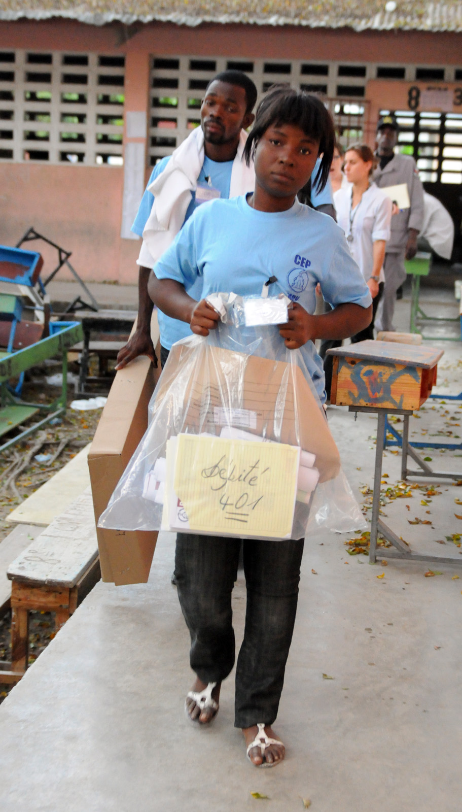 A poll worker carries a sealed bag of votes after they were counted in Tabarre in Port-au-Prince on March 20, 2011, in the second round of the presidential elections. Photo copyright Kendra Helmer/USAID All rights reserved